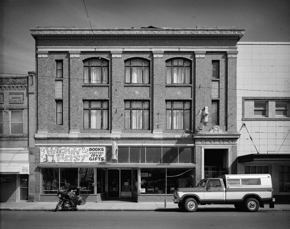 Anaconda Historic District, Benevolent & Protective Order of Elks Building, 217 Main Street, Anaconda (Deer Lodge County, Montana) cropped This file comes from the Historic American Buildings Survey (HABS), Historic American Engineering Record (HAER) or Historic American Landscapes Survey (HALS). These are programs of the National Park Service established for the purpose of documenting historic places. Records consist of measured drawings, archival photographs, and written reports. When reusing please credit: Library of Congress, Prints & Photographs Division, MONT,12-ANAC,1-I-1 This tag does not indicate the copyright status of the attached work. A normal copyright tag is still required. See Commons:Licensing for more information. This work is in the public domain in the United States because it is a work prepared by an officer or employee of the United States Government as part of that person’s official duties under the terms of Title 17, Chapter 1, Section 105 of the US Code. Note: This only applies to original works of the Federal Government and not to the work of any individual U.S. state, territory, commonwealth, county, municipality, or any other subdivision. This template also does not apply to postage stamp designs published by the United States Postal Service since 1978. (See § 313.6(C)(1) of Compendium of U.S. Copyright Office Practices). It also does not apply to certain US coins; see The US Mint Terms of Use. This file has been identified as being free of known restrictions under copyright law, including all related and neighboring rights.